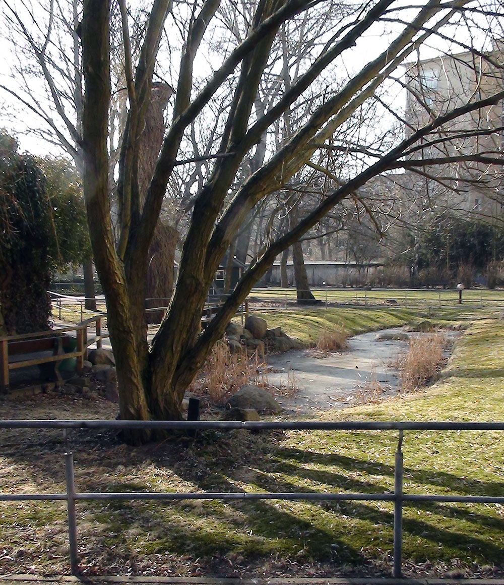 Remains of the ponds of the former open-air swimming pool of Mariendorf in Berlin on the grounds of the today's senior citizen center Ullsteinstraße